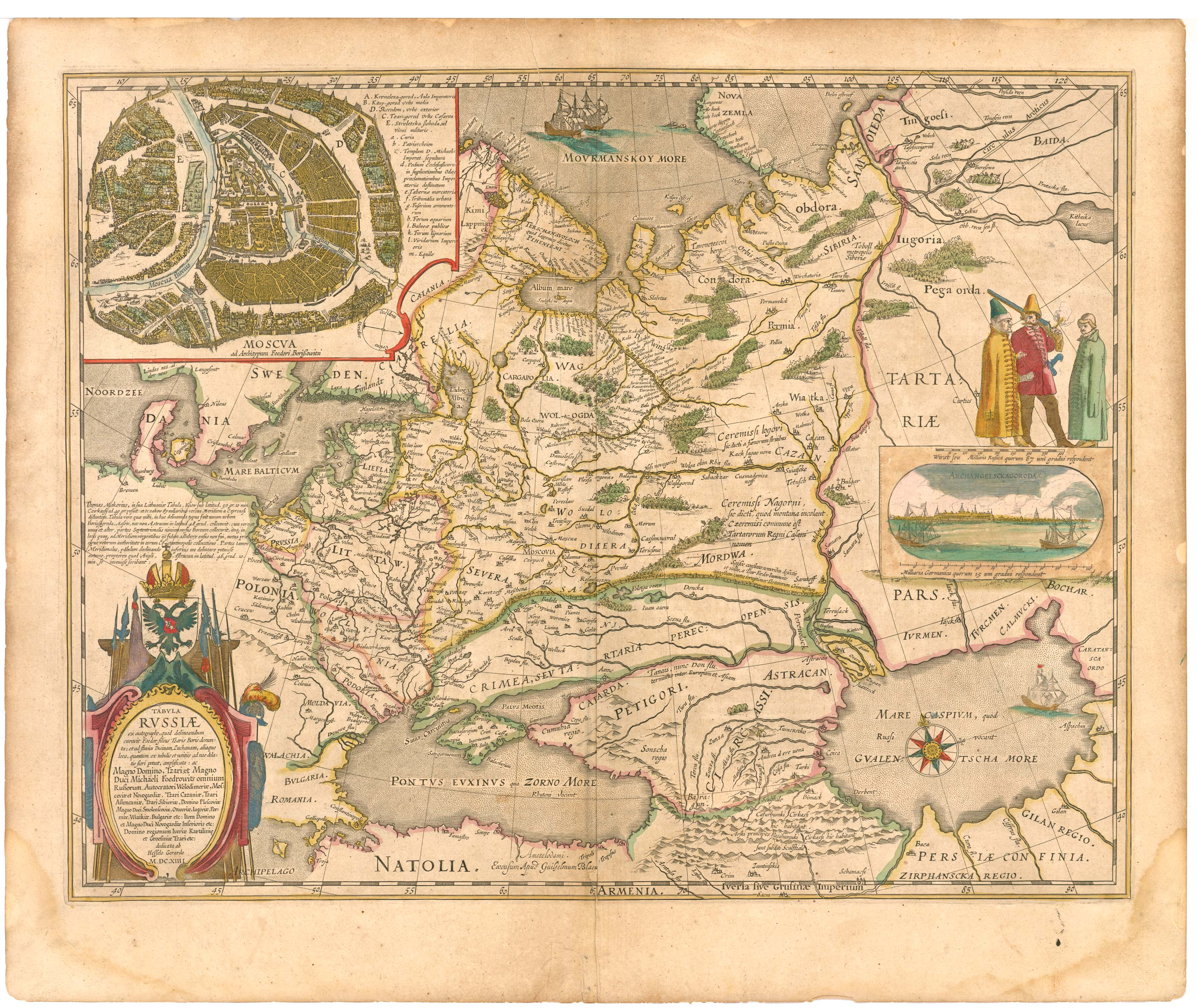 (Theater of the World, or a New Atlas of Maps and Representations of All Regions, Edited by Willem and Joan Blaeu), 1645.